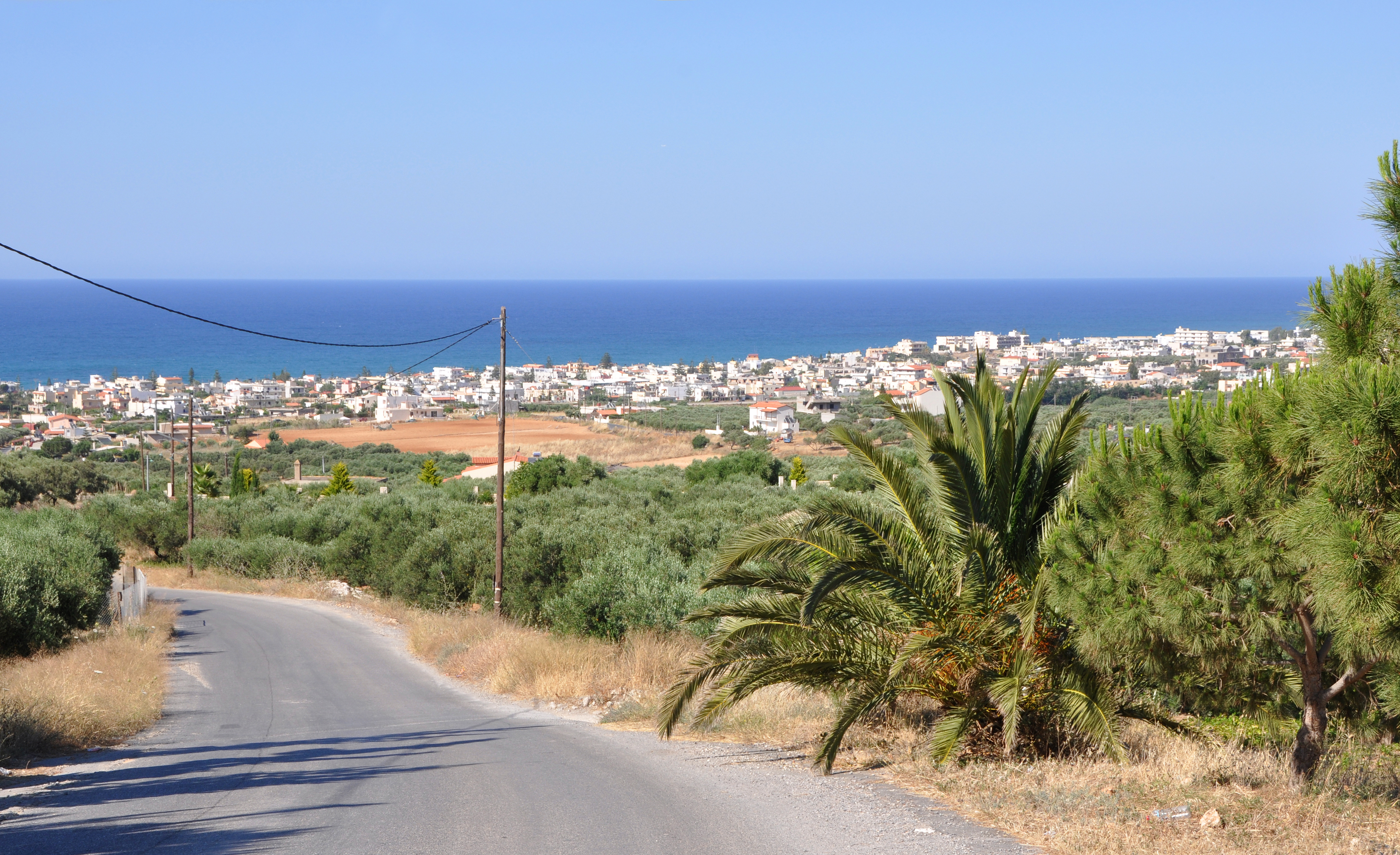 View of Kokkini Hani (Crete, Greece)